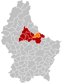 Own edit of Kanton DiekirchLocatie.png